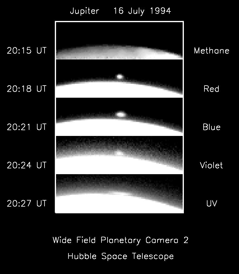 A fireball appears over the limb of Jupiter after the impact of fragment A